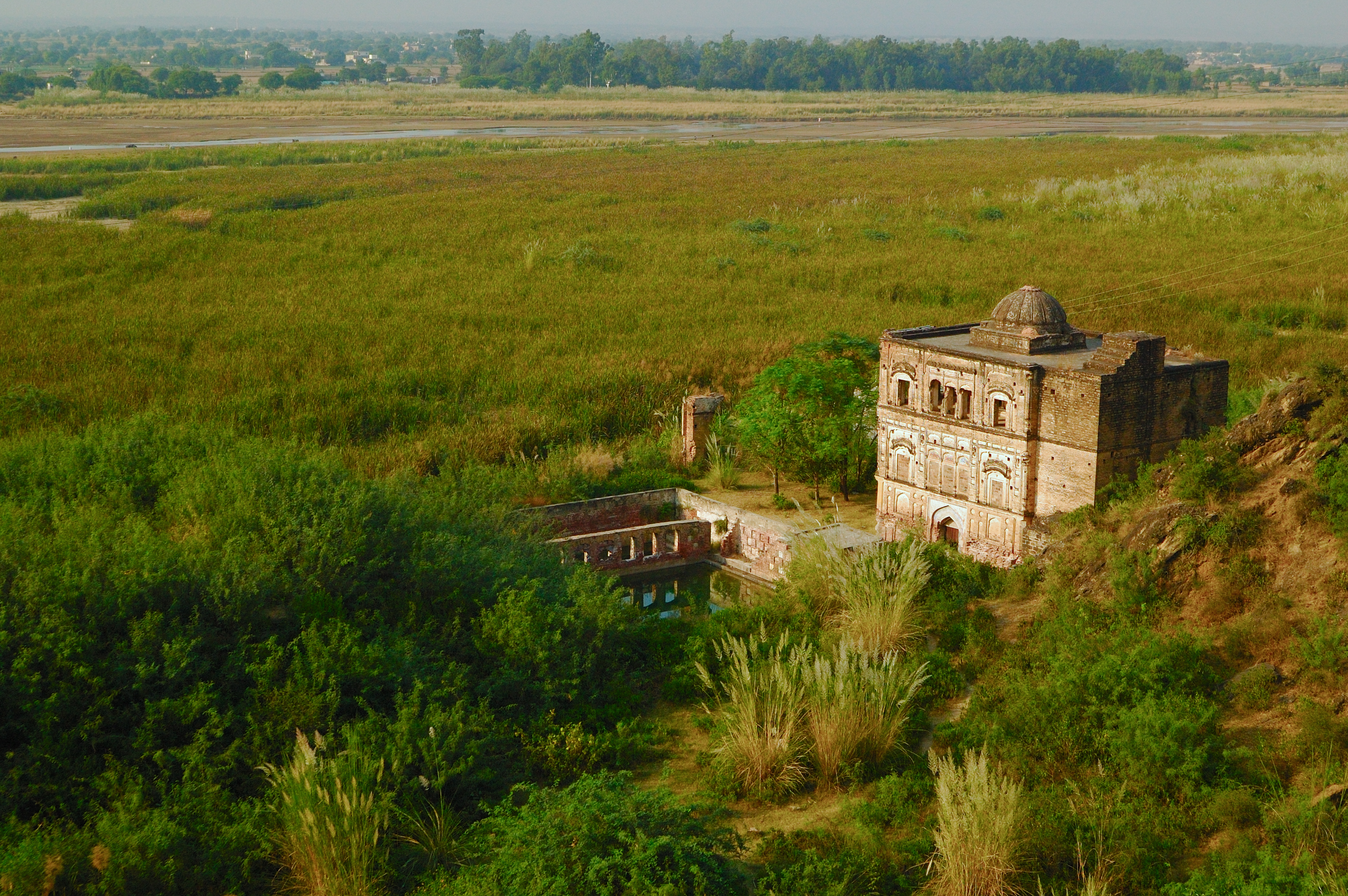 Rohtas Fort This is a photo of a monument in Pakistan identified as the PB-30